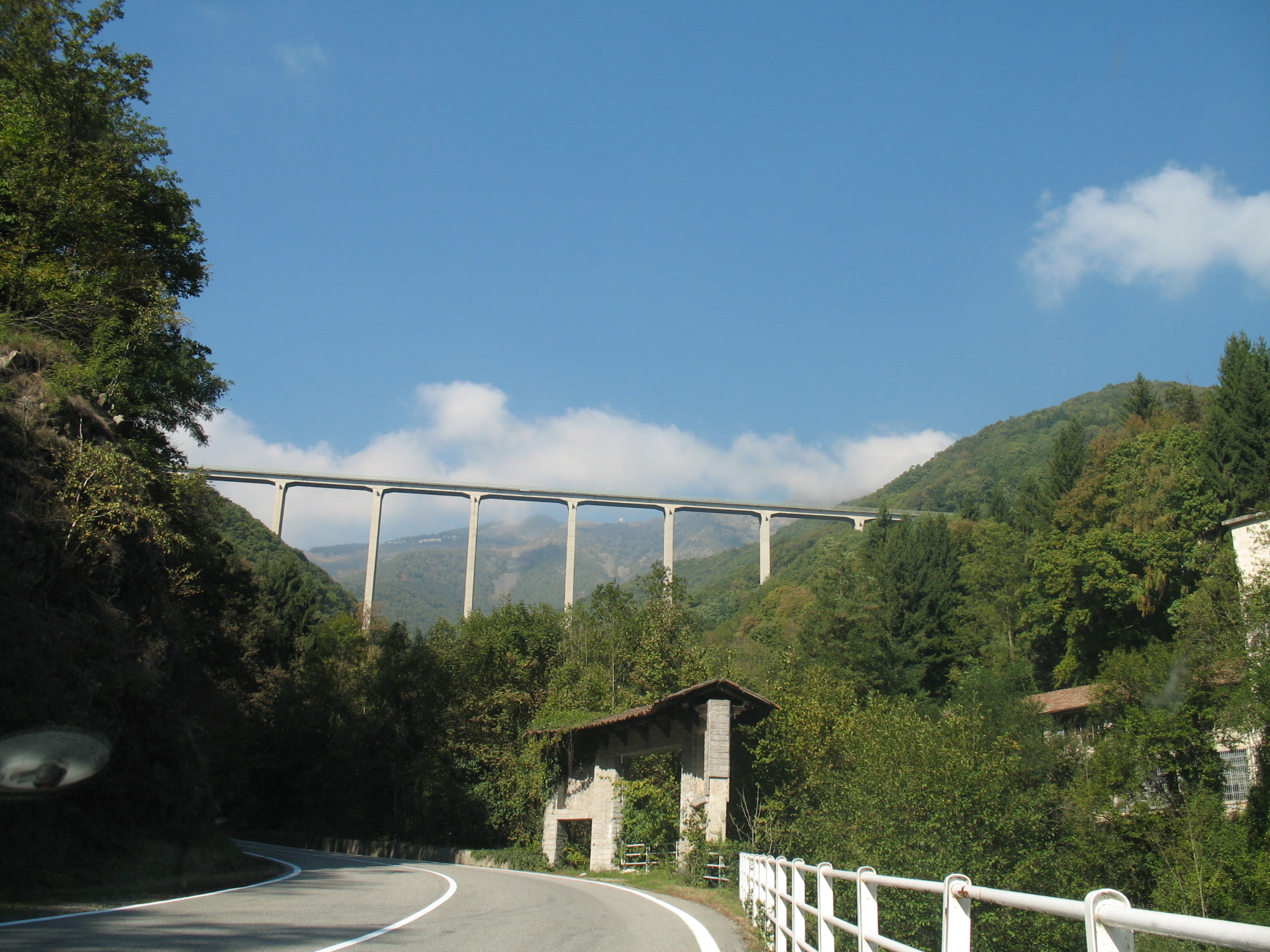 Provincial road 200 Valli di Mosso and, in the background, Pistolesa bridge (BI, Italy)